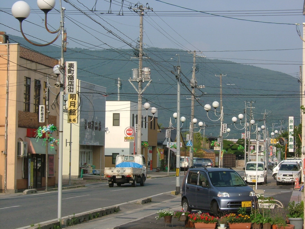 This is the high street in Akayu, Nanyo City, Yamagata Prefecture, Japan. I took the photo with a digital camera in July 2005.